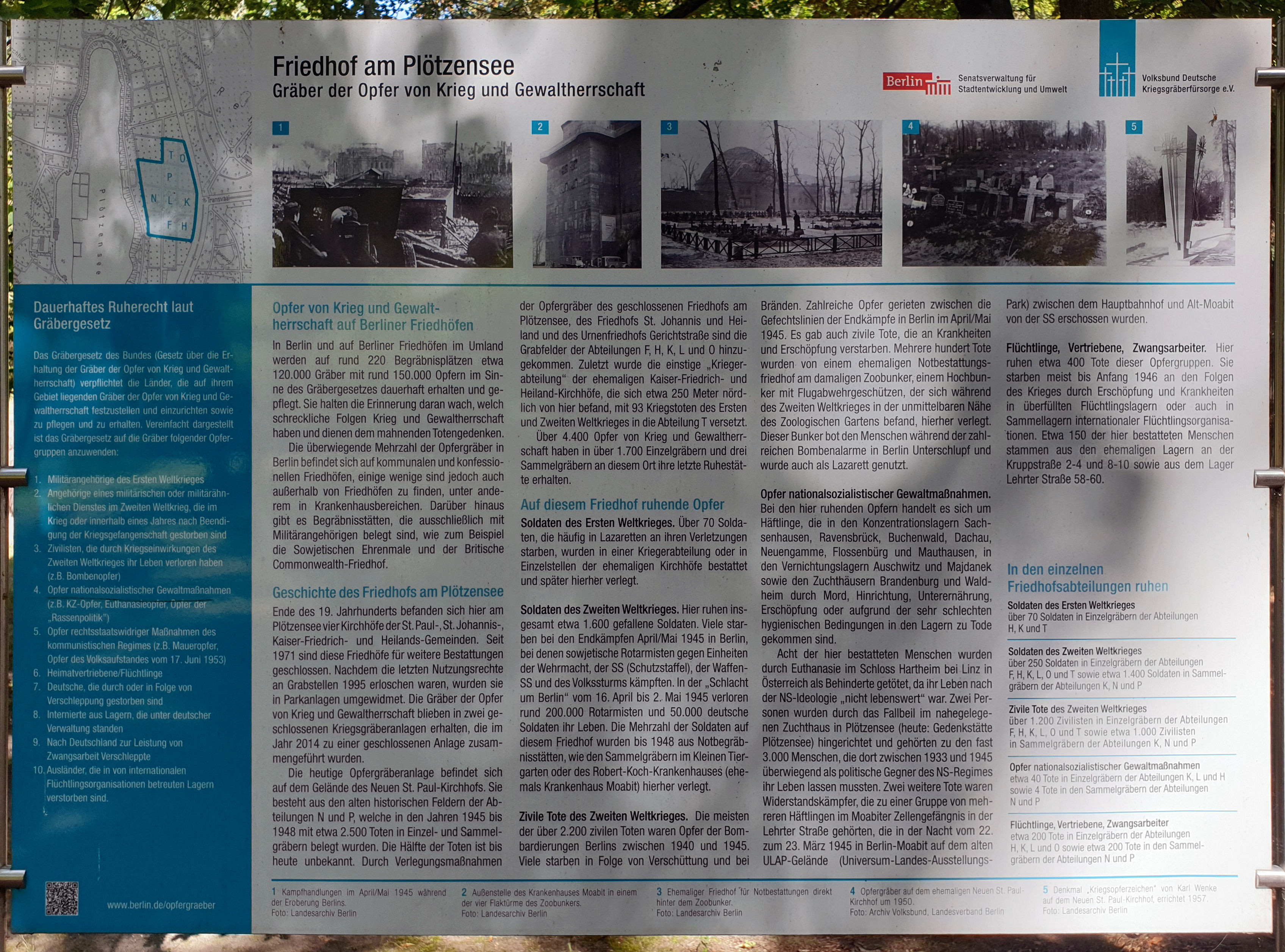 Memorial plaque, Friedhof am Plötzensee, Dohnagestell, Berlin-Wedding, Germany